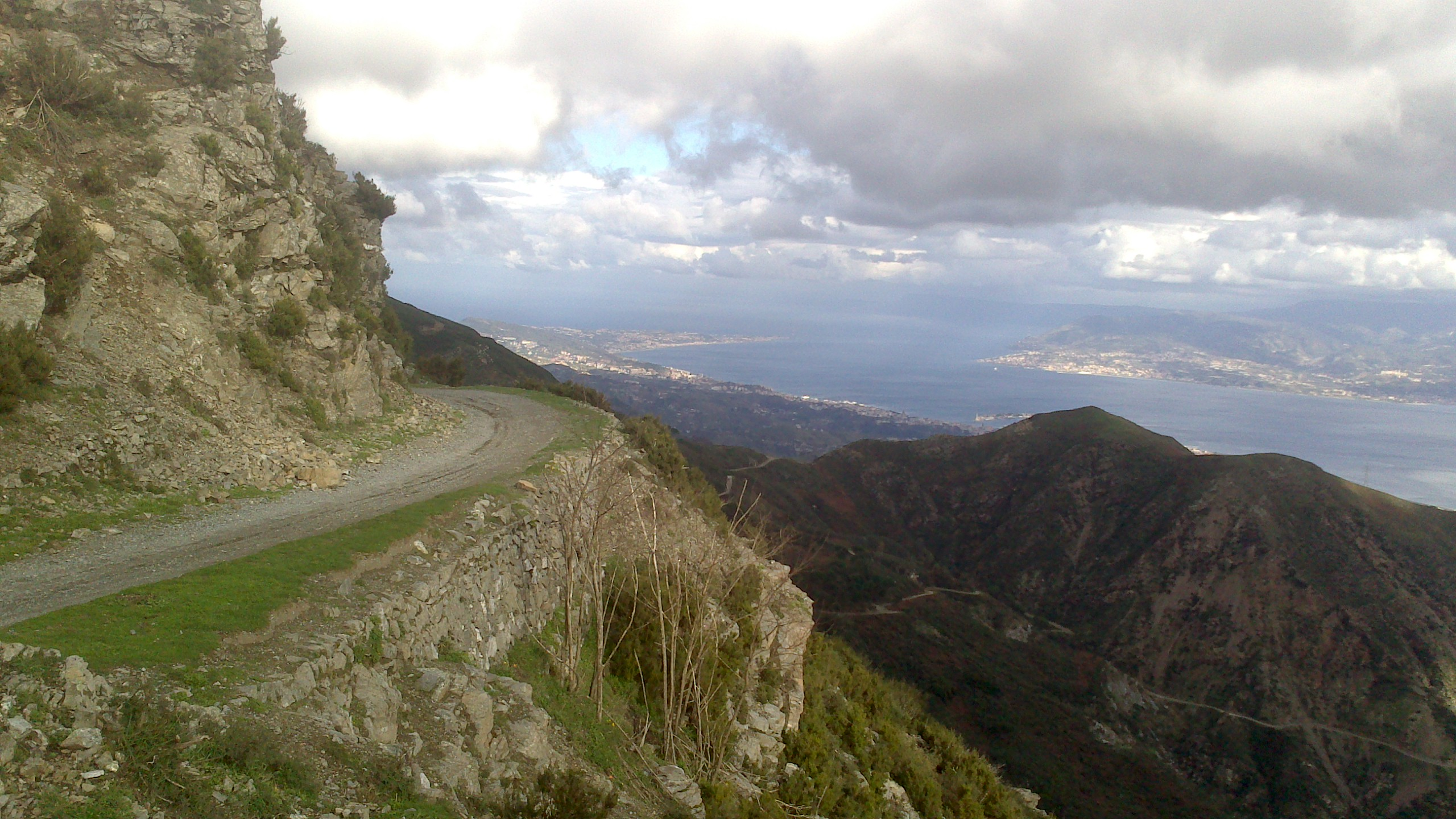 the mountain street La Dorsale Peloritana